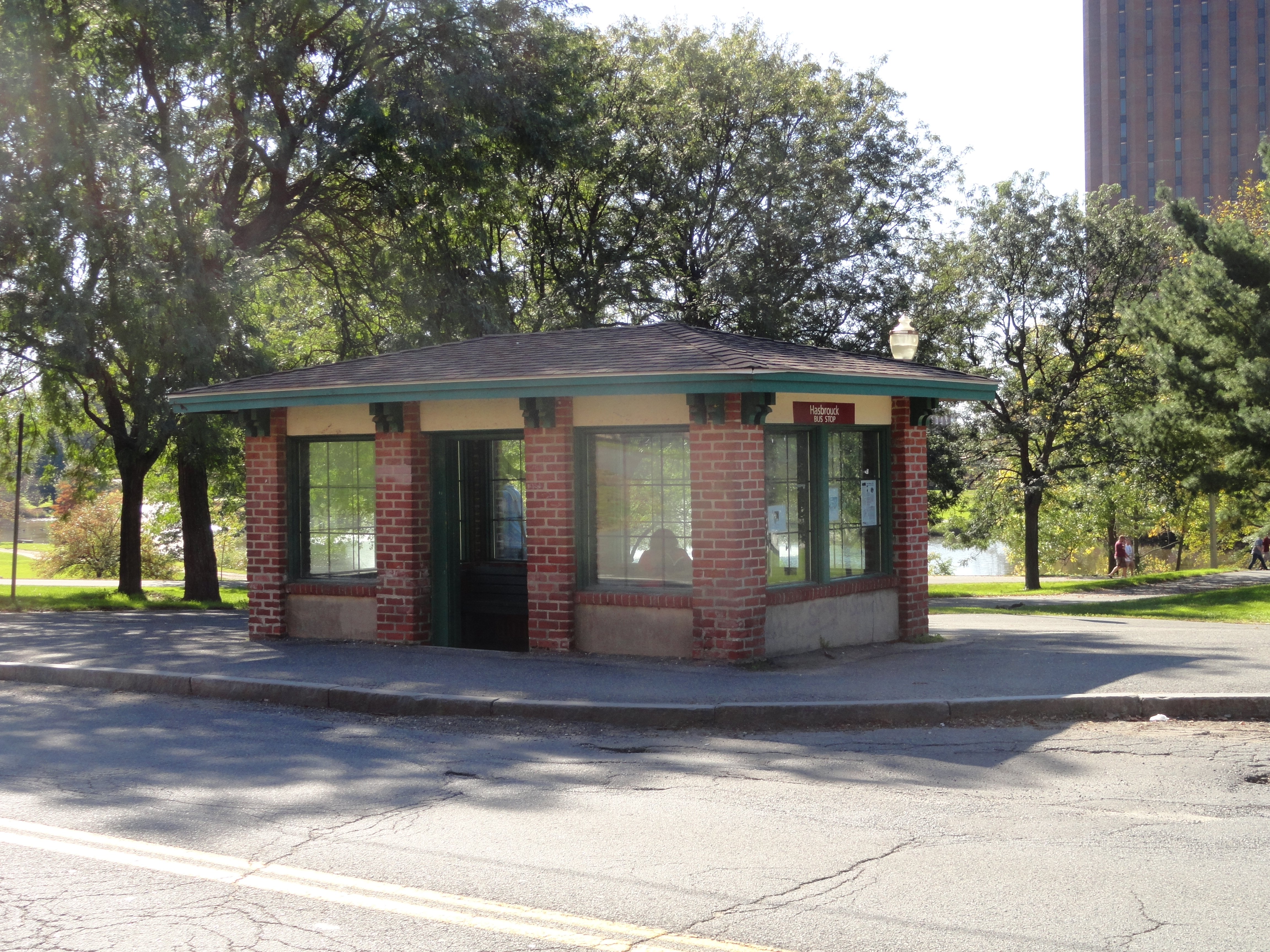 The Trolley Station at the University of Massachusetts Amherst.